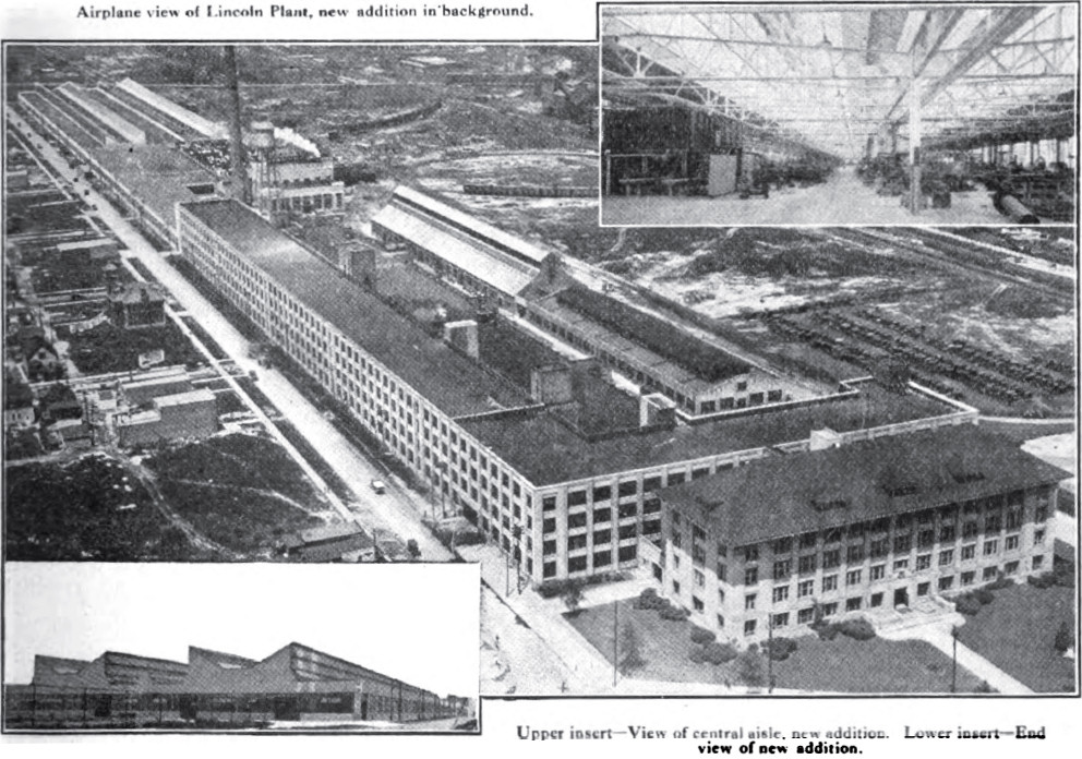 Lincoln Motor Company Plant in 1923 — Detroit, Michigan. While it was eventually placed on the National Register of Historic Places, the plant was demolished in early 2003.[1]